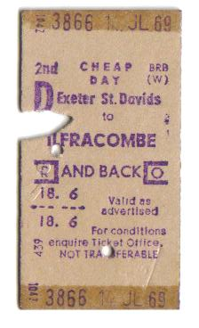 A railway ticket for Exter st.David's to Ilfracombe for 14 July 1969.